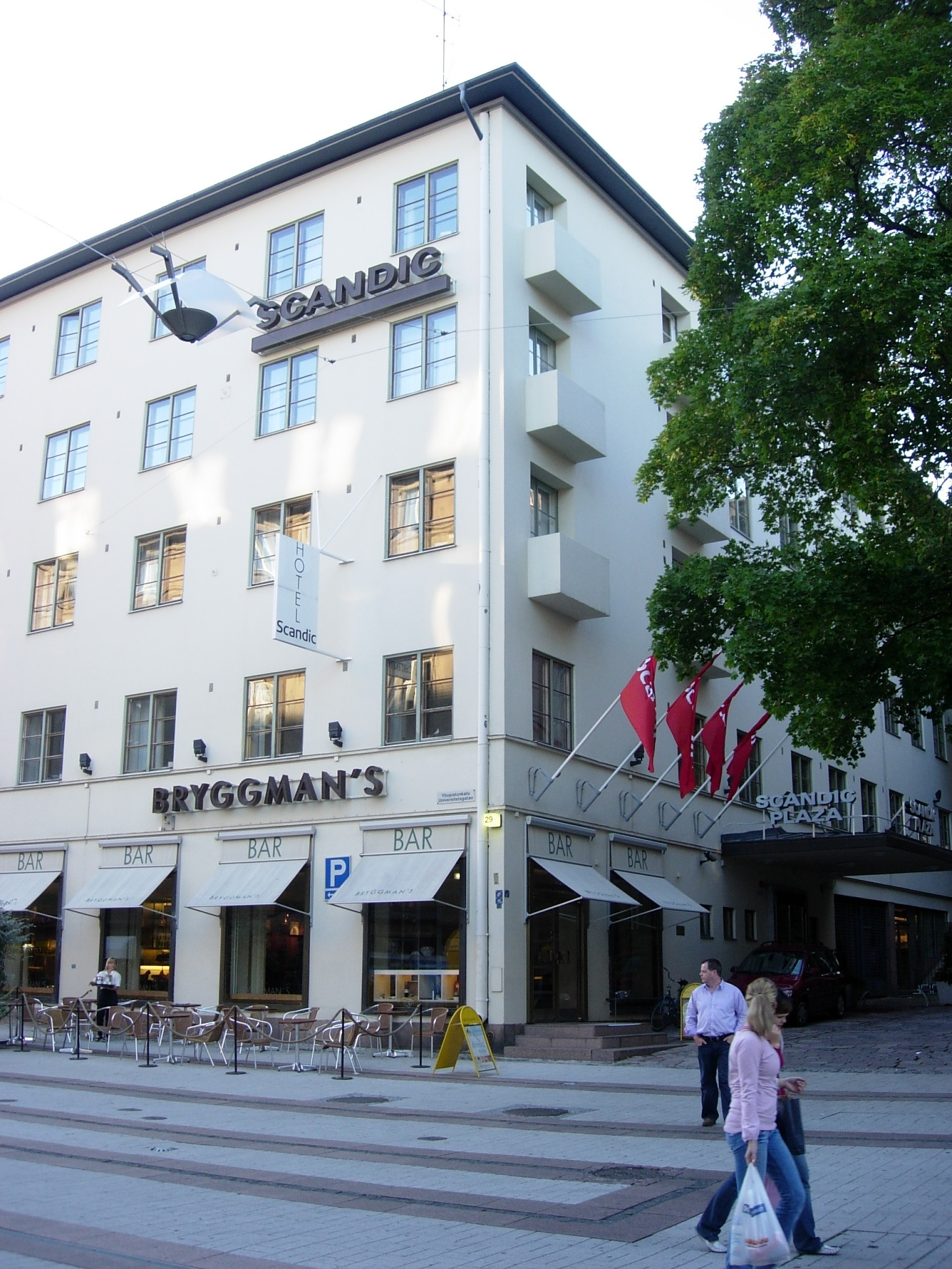 Former ”Hotel Hospits Betel” from 1929, nowadays Hotel Scandic Turku . Functionalism designed by Erik Bryggman. Yliopistonkatu 29, Turku.